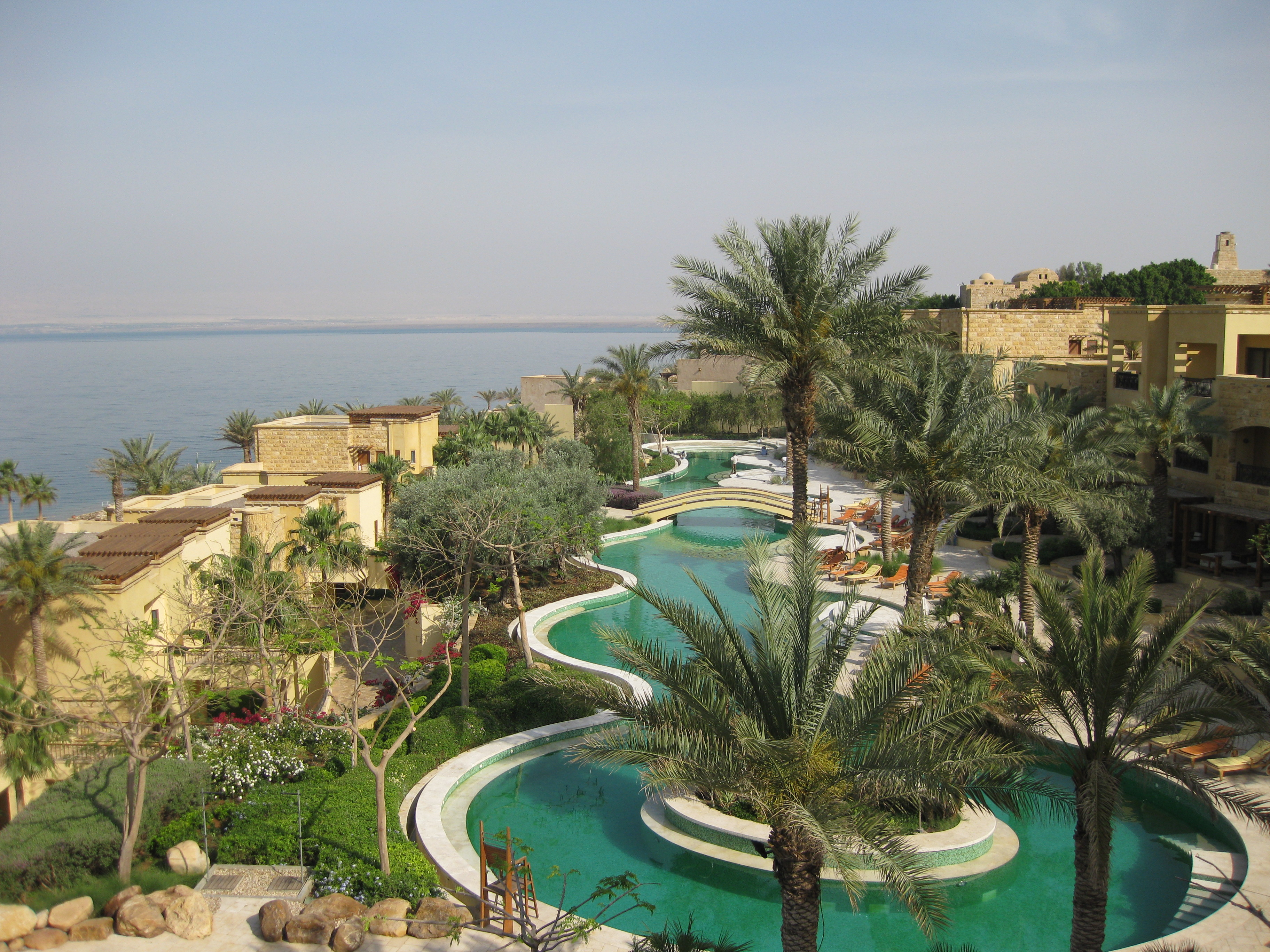 Dead Sea From the Kempinsky Hotel - Jordan.